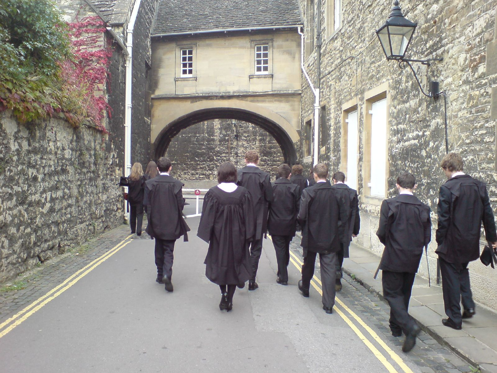 Students walking seen from behind, some wearing short commoners' gowns over subfusc suits: this is required wear only for very formal occasions such as examinations, matriculation, and graduation; for formal college dinners, a gown worn over everyday clothes is usual.DSC00156